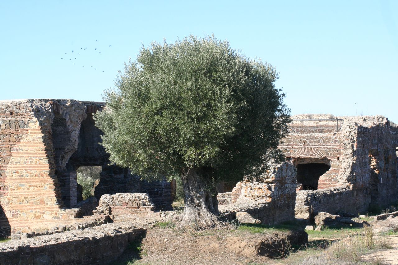 São Cucufate roman buildings